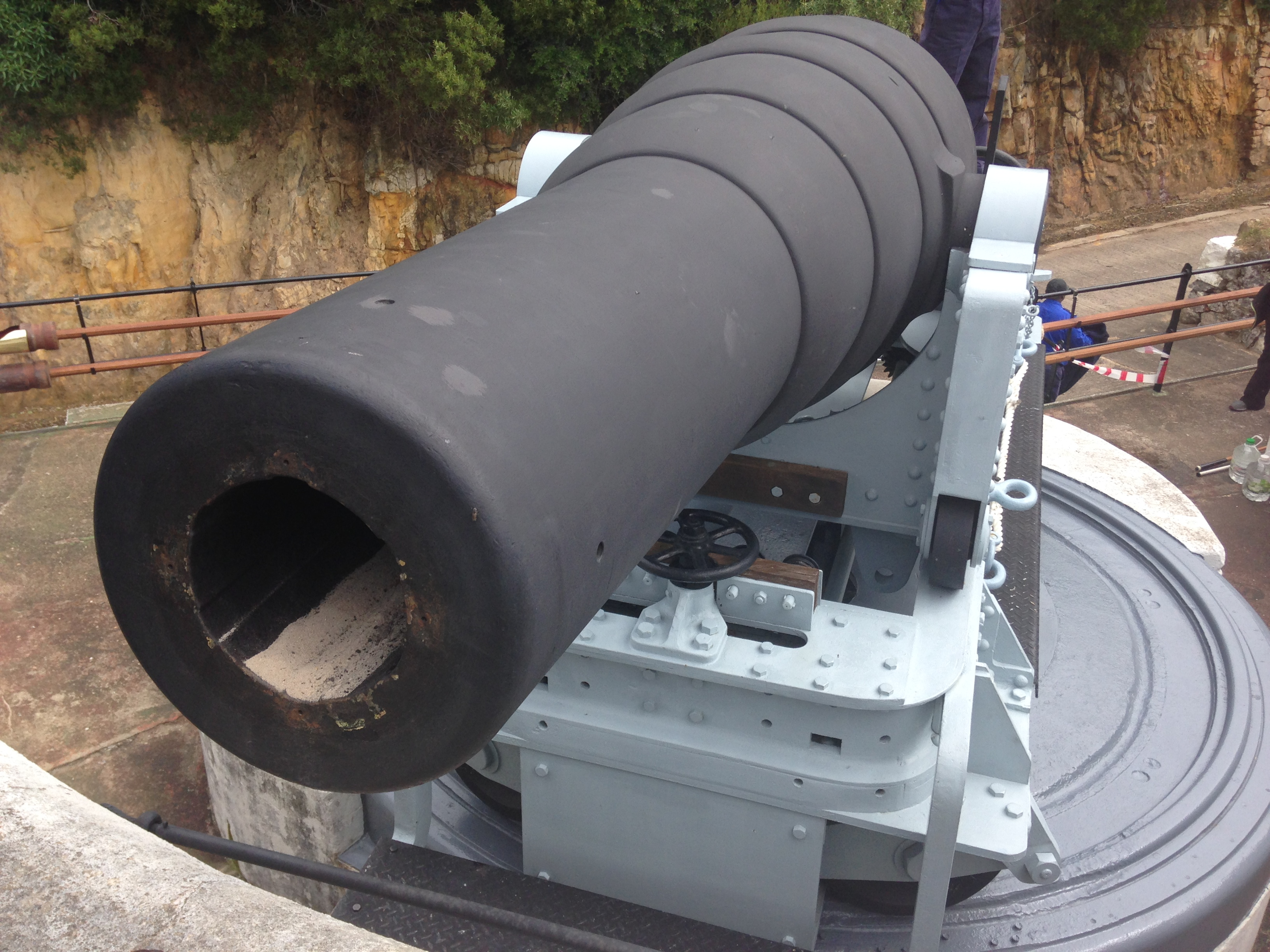 9 Inch MLR Gun, Middle North Battery, Simonstown. Photograph taken just after gun was fired. Firing sand still in the barrel. This media shows a South African Protected Site with SAHRA file reference 9/2/081/0069.